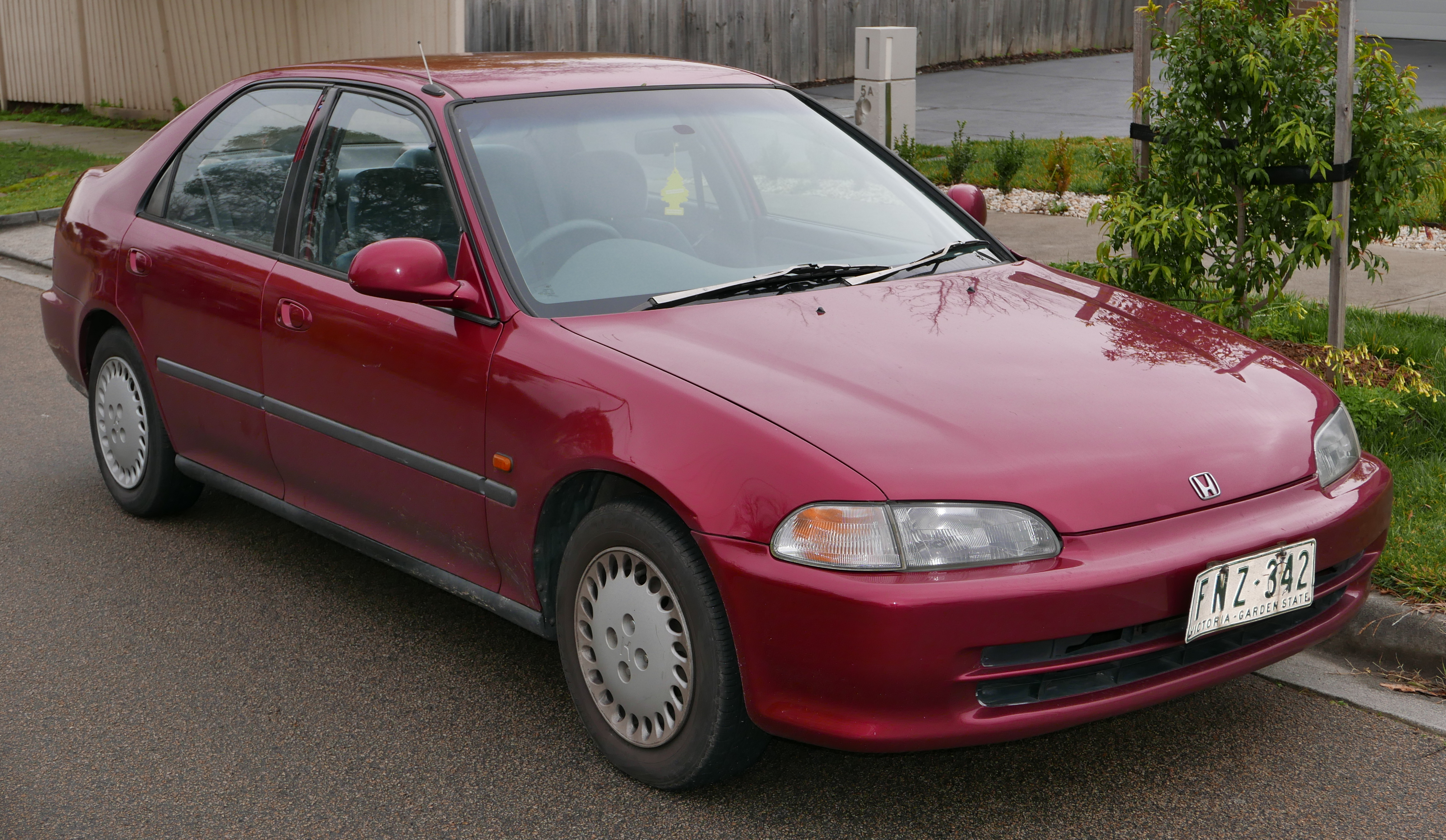 1994 Honda Civic (EG) GLi sedan. Photographed in Doncaster East, Victoria, Australia. Vehicle registration enquiry results Jurisdiction Victoria Registration FNZ342 Chassis code JHMEG86400S224002 Engine code D15B73709325 Compliance date 1994-05 Year of manufacture 1994